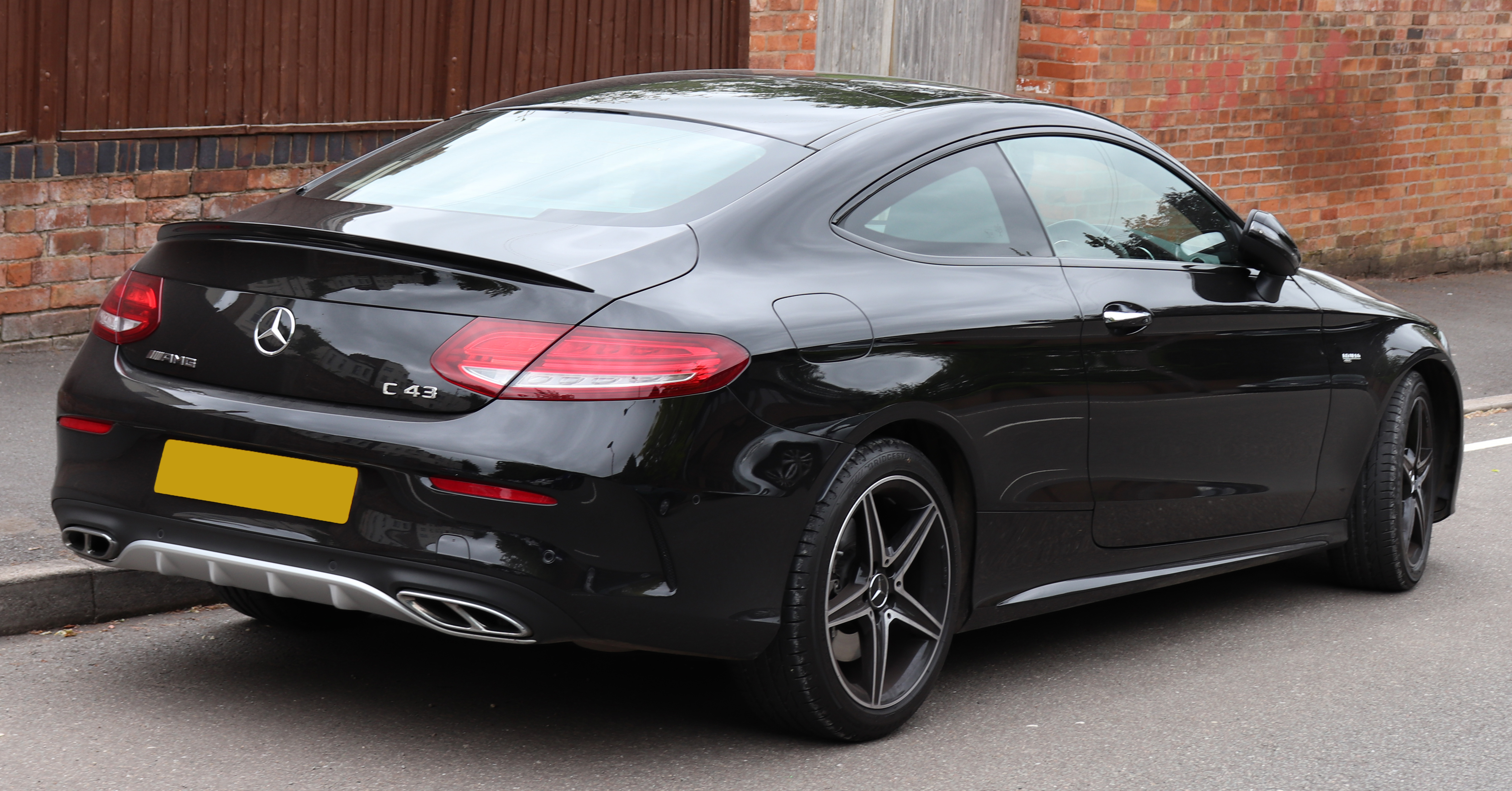 2018 Mercedes-AMG C 43 Premium 4MATIC Automatic 3.0 Rear Taken in Leamington Spa